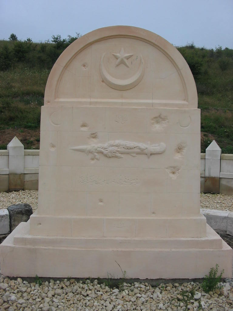 Turkish memorial at the Turkish military cemetery of First World War in Lopushnya, Rohatyn district, Ivano-Frankivsk Oblast, western Ukarine.